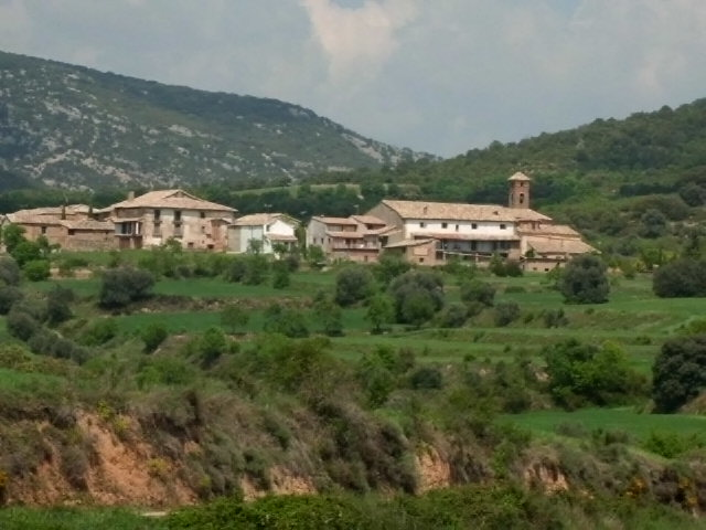 Morrano